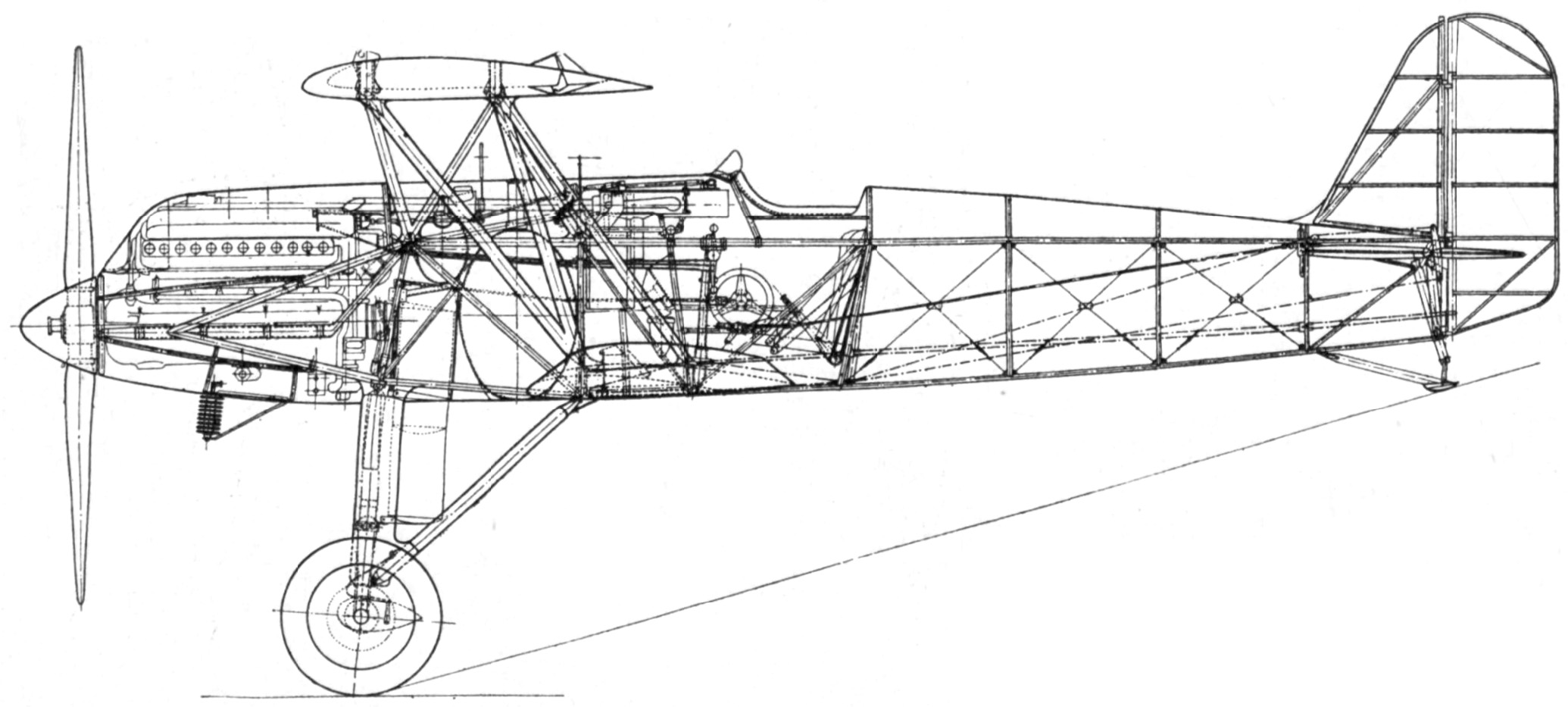 Fokker D.XVII side drawing from L'Aerophile May 1932